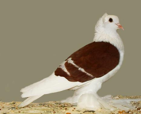 Saxon Shield, Muffed, Shell-crest (red) all colours have white bars